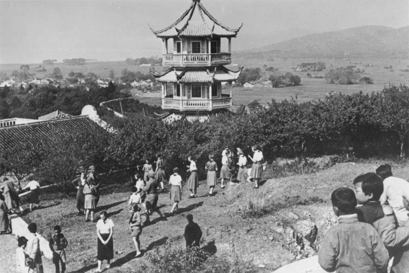 German girls engaged in Easter egg hunt near an observation tower (or a temple?) in Wuxi, Jiangsu